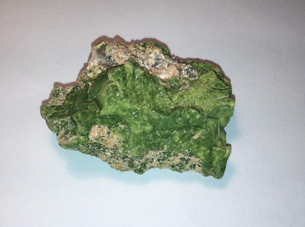 Photo of a Nontronite, from Sils, La Selva, Girona, Catalonia